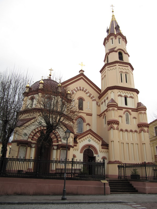 St. Nicholas Russian Orthodox Church, Vilnius, Lithuania